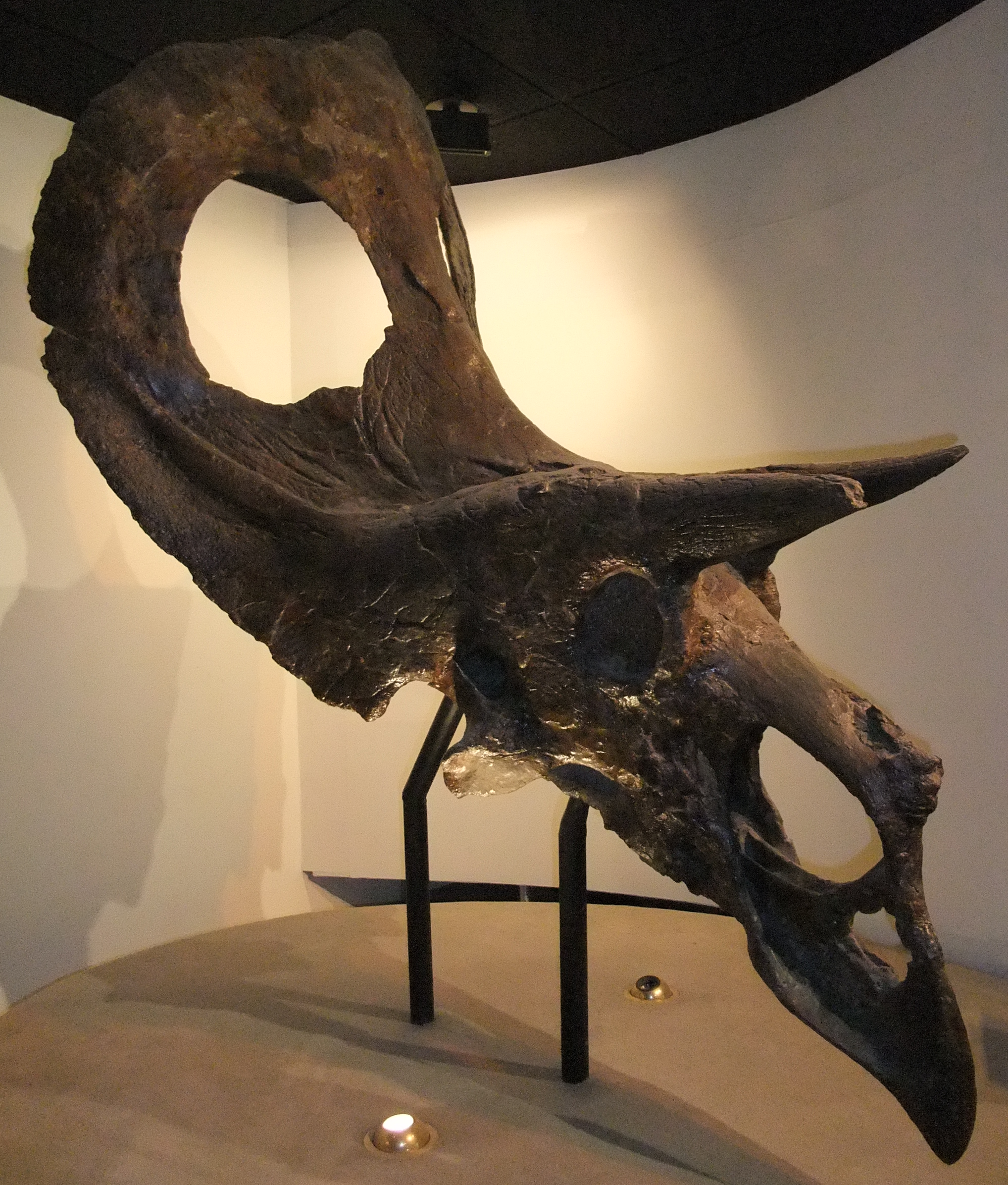 A photograph of the skull of Torosaurus latus (ANSP 15192) with plaster reconstruction.